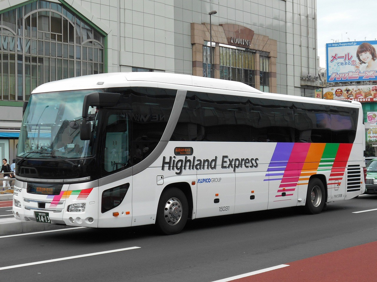 Alpico kotsu Hino S'elega HD highwaybus "Shinjuku - Nagano"